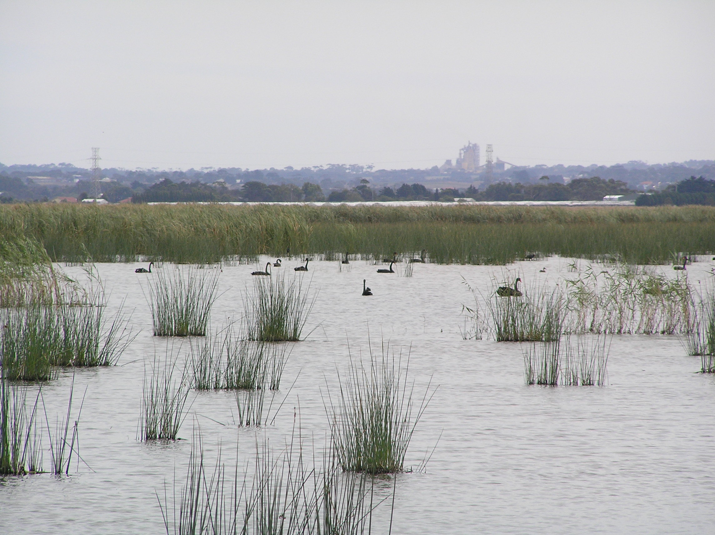 View of Reedy Lake, Geelong, Victoria, Australia, from the north.